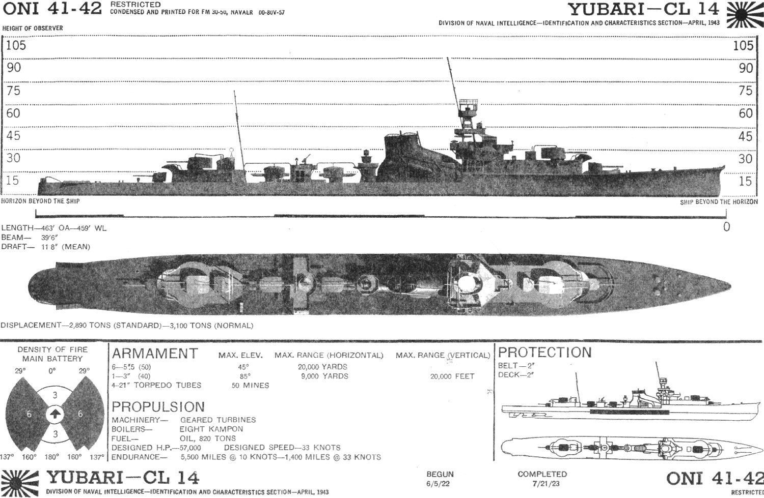 Silhouette of the Japanese light cruiser Yubari